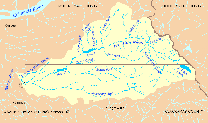 Map of the Bull Run River watershed — in Multnomah and Clackamas counties of northern Oregon, Western United States. A tributary of the Columbia River via the Sandy River. The river begins to the west and within sight of Mount Hood in the Cascade Range (does not drain it) in the Mount Hood National Forest, and flows into the Sandy River between the city of Sandy and the Columbia River.